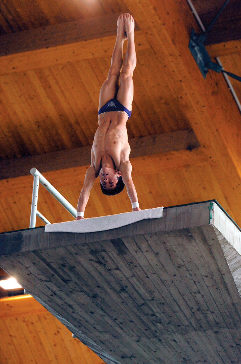 031206-N-6967M-007 A diver prepares to leave the board during the 2003 Military World Games in Catania, Italy. The games consisted of 86 participating countries and are designed to promote "Peace through Sports.” Russia won the overall medal competition at the games with 108, including 39 gold. The United States, suffering from a lack of participation, was 18th with four medals. (All Hands, April 2004, pg. 16) Photo by Photographer's Mate 1st Class (AW) Shane T. McCoy. (RELEASED)